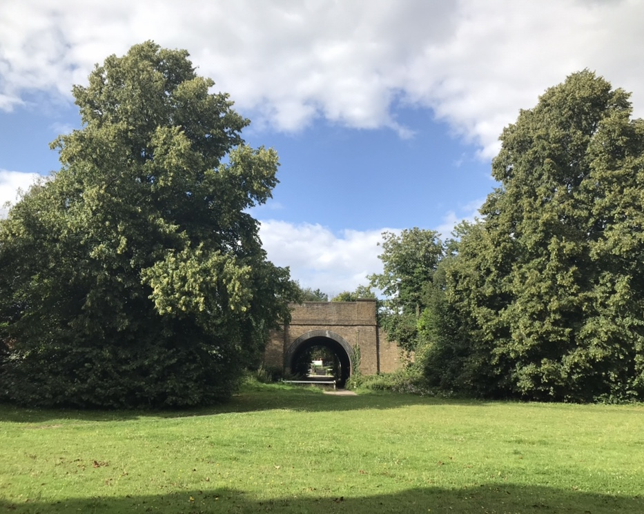 Cobb Green including trees and a railway arch, Lower Green Esher